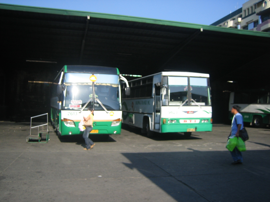 The Baliwag Transit bus station in Caloocan City.